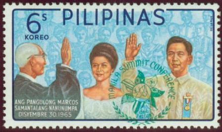 Marcos inauguration stamp with imelda